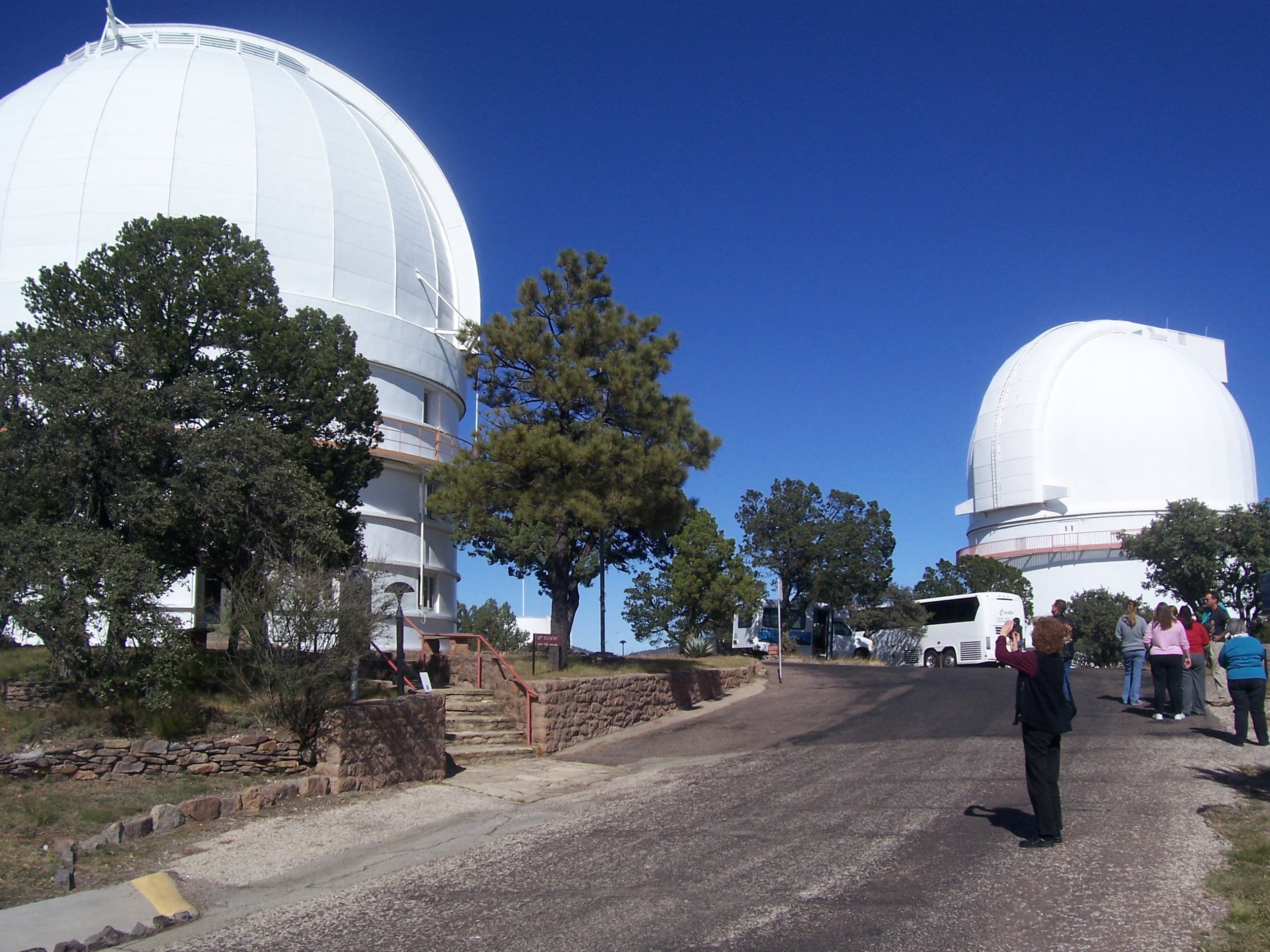 Author: Eric S. Kounce, taken October 29, 2006